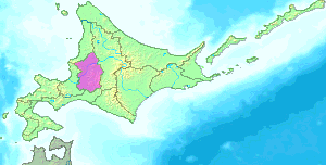 Sorachi shinkokyoku subpref